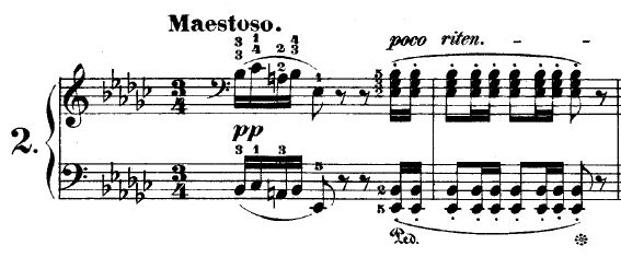 Polonaise in E flat minor, Op. 26 No. 2 - F. Chopin